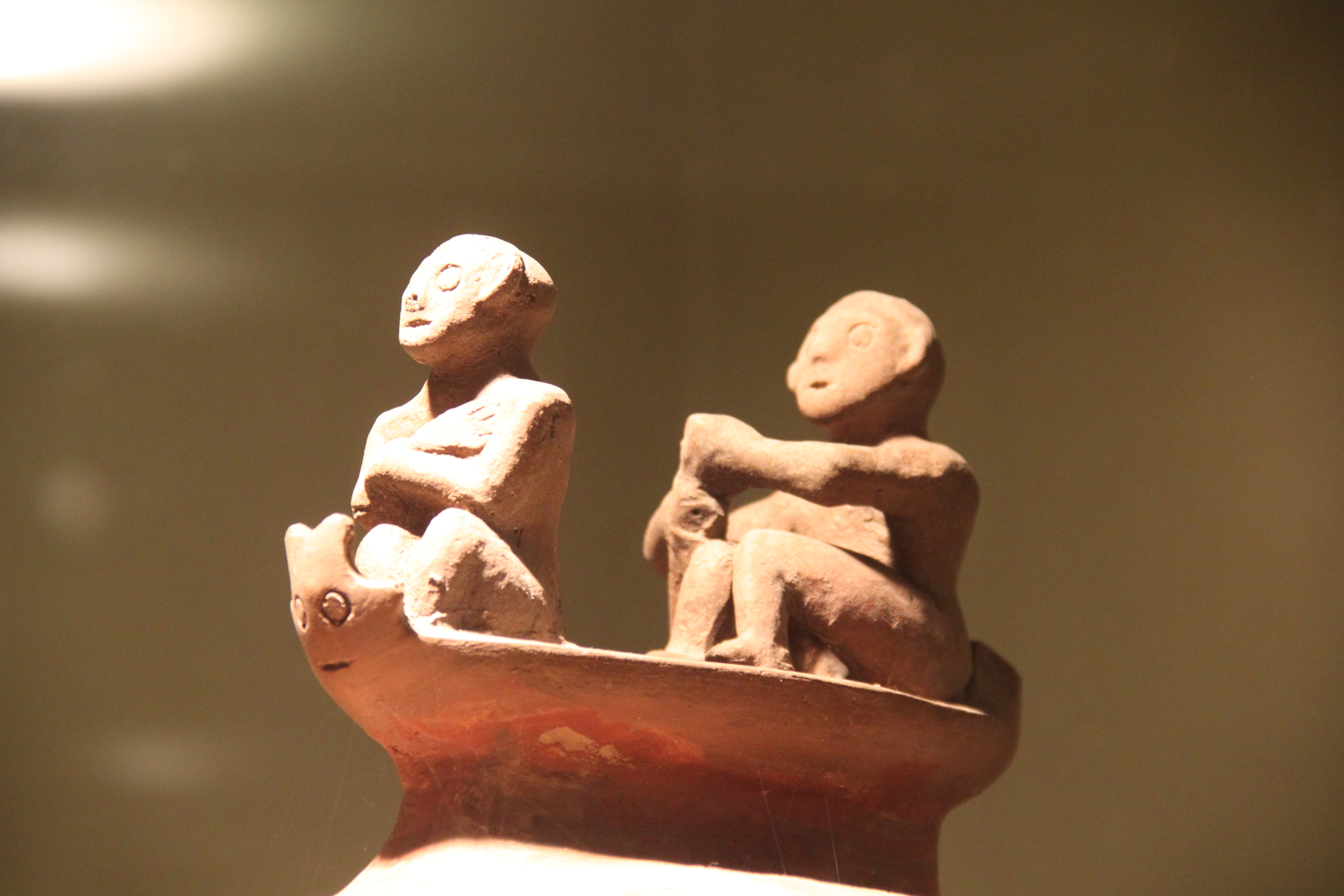 Prehistoric Pottery Gallery, Museum of the Filipino People, Rizal Park, Manila, Philippines. Complete indexed photo collection at .